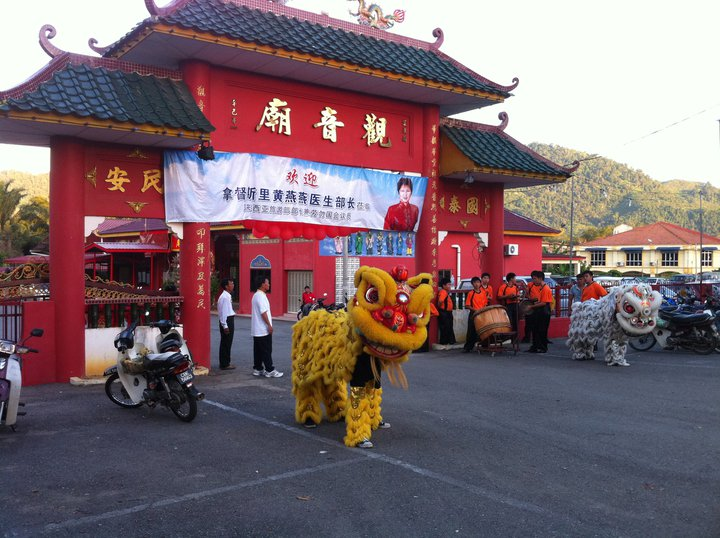 Village